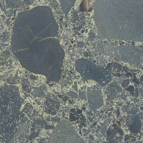 Photographer: Siim Sepp Date of the creation: 25th April, 2005. Diameter is 12 cm. Description: black is basalt, green groundmass is epidote. Rock sample is from La Palma, Canary islands and belongs to the University of Tartu.